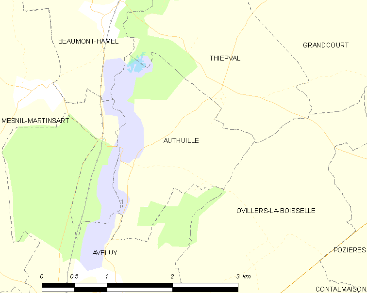 Map of French municipality Authuille